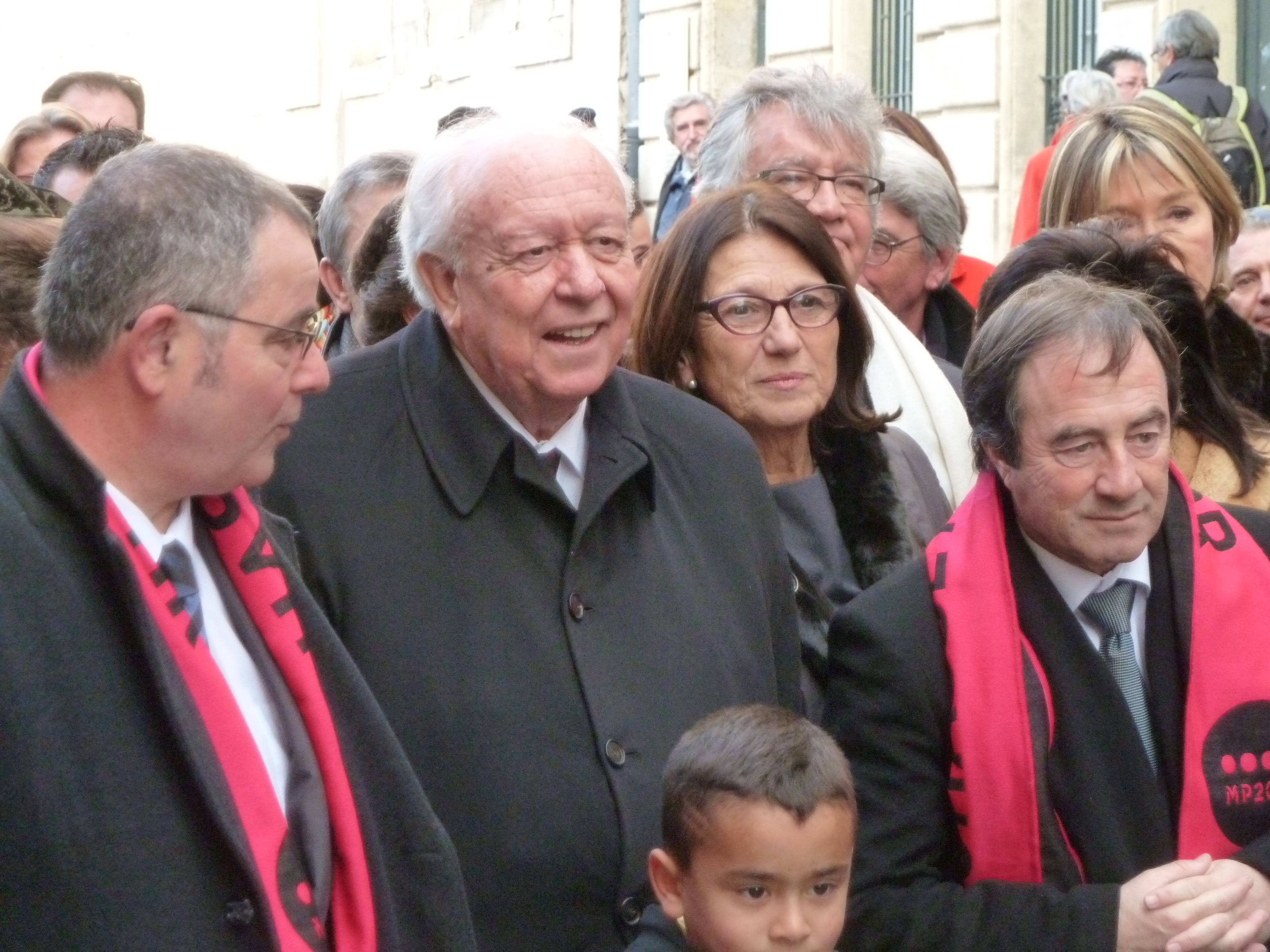 Opening Marseille-Provence 2013, Arles (13), France. 13.01.2013 / Jean-Claude Gaudin